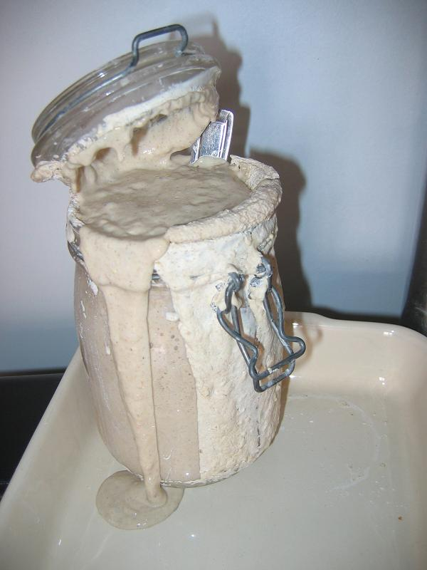 Un levain d'un litre environ, qui fera levé le pain.